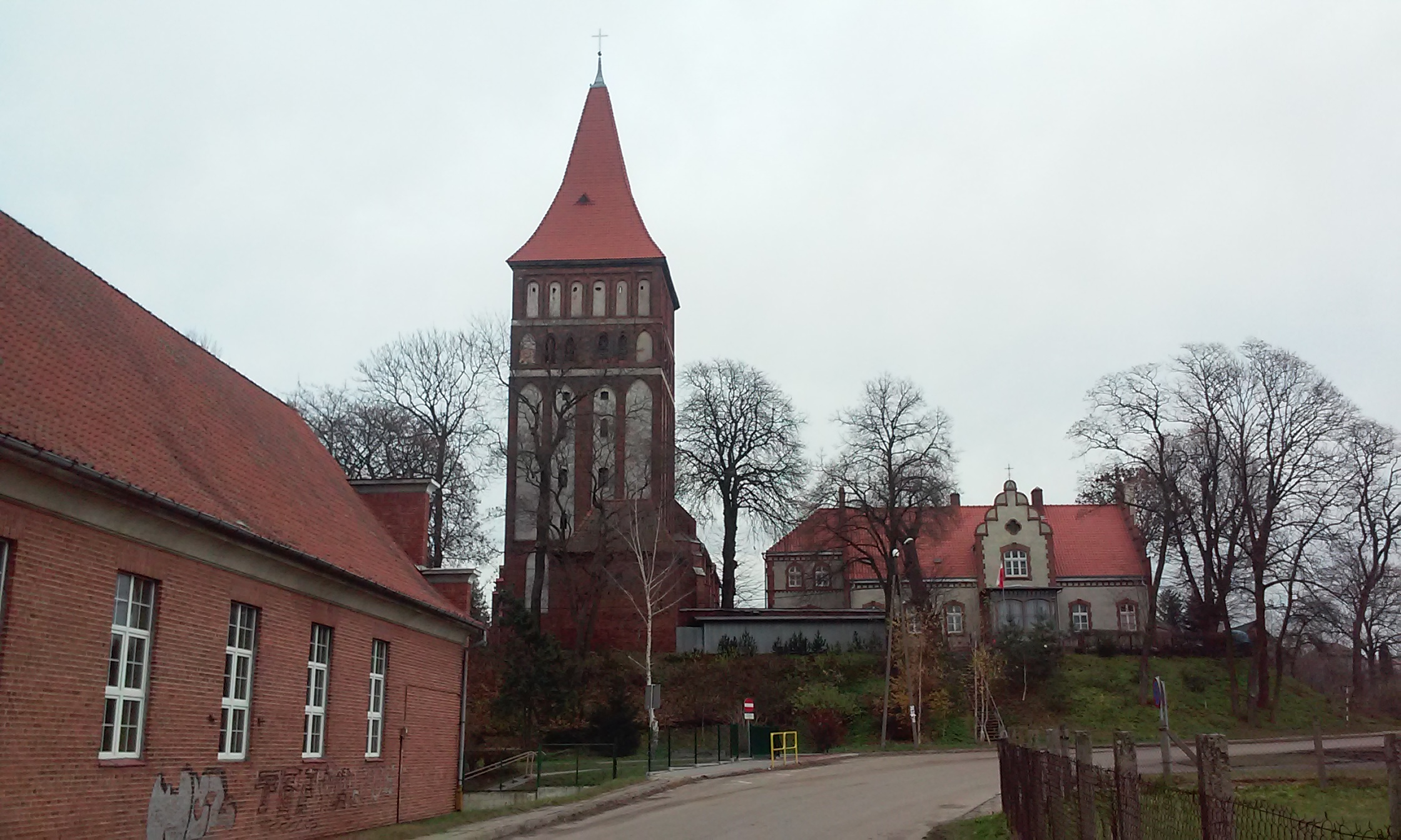 Zalewo, Warmian-Masurian Voivodeship, Poland